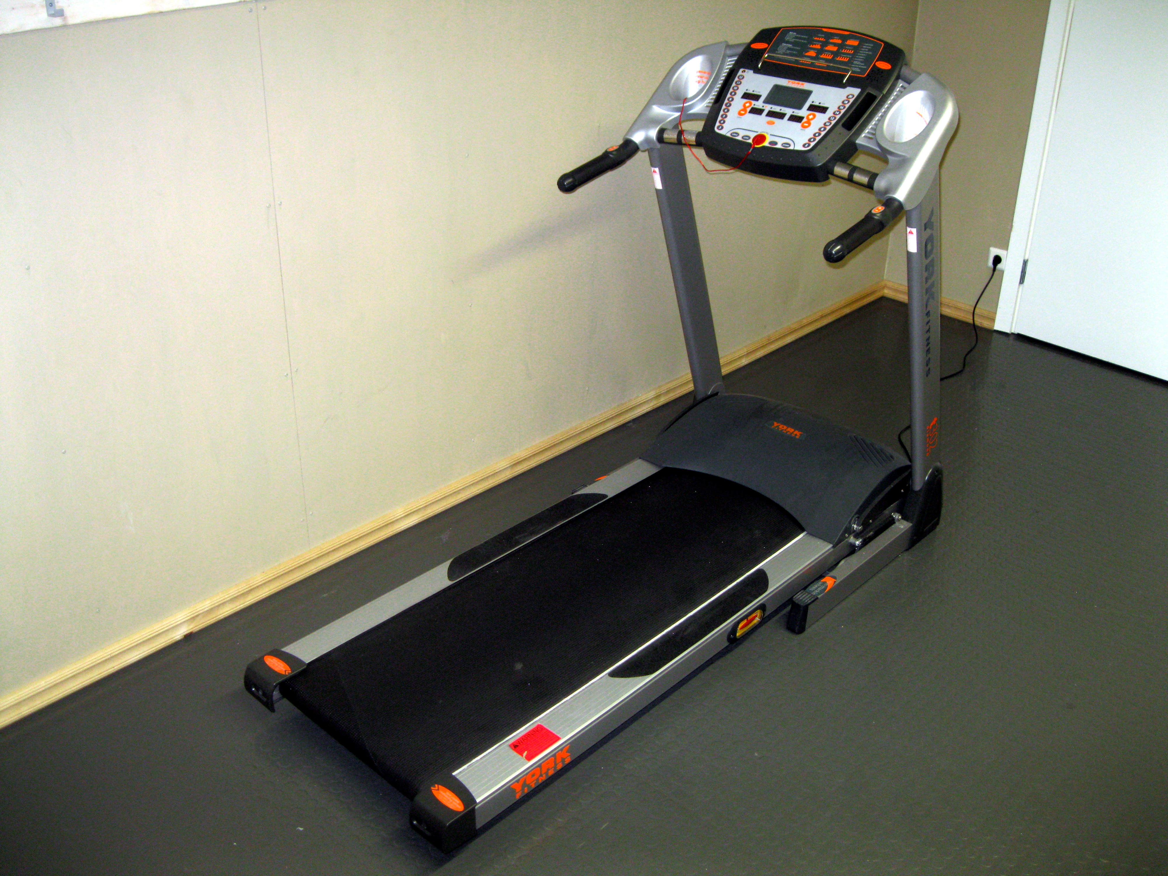 York Fitness T302 treadmill.